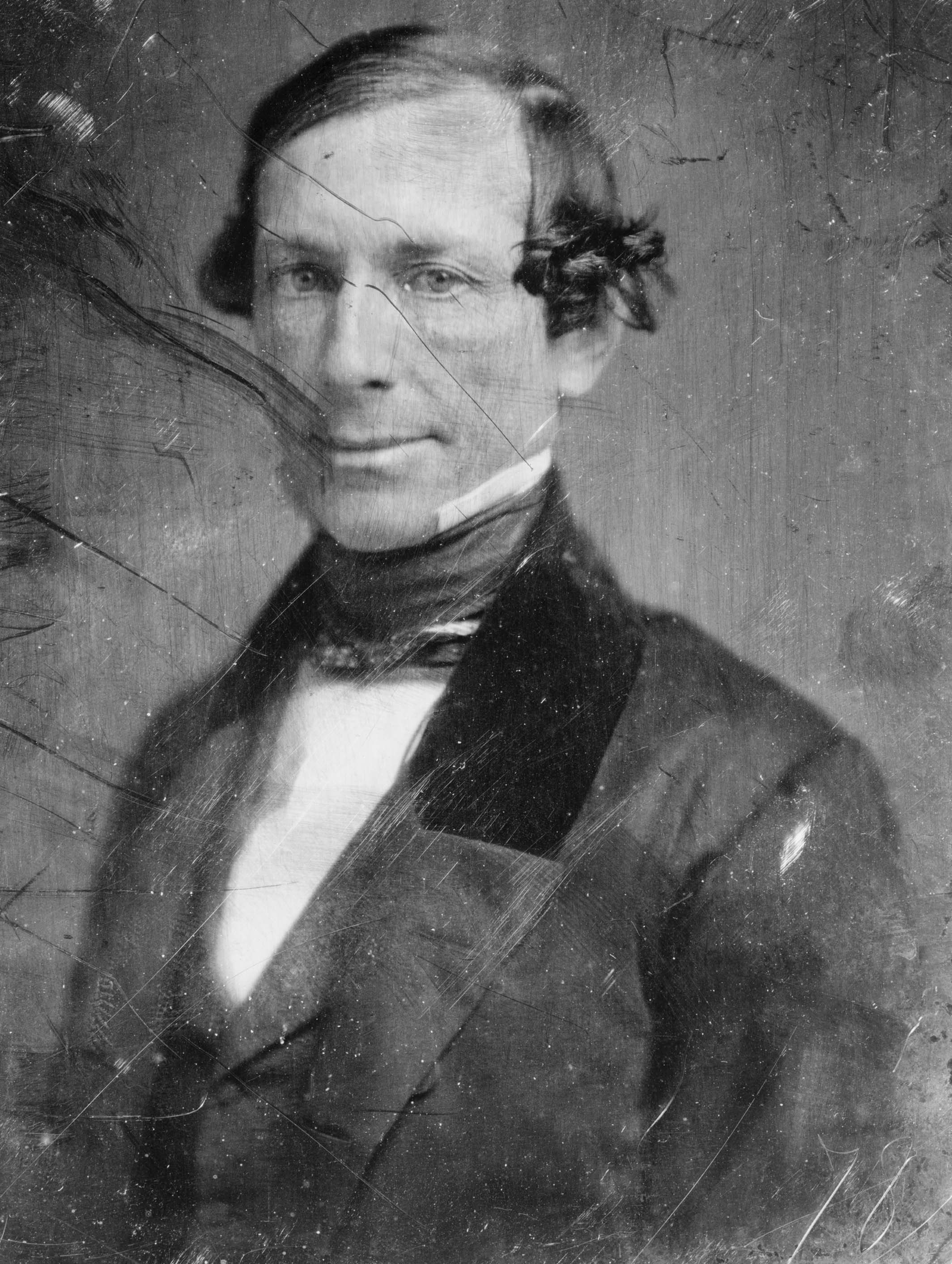 Photograph of Fernando Wood (1812-1881).